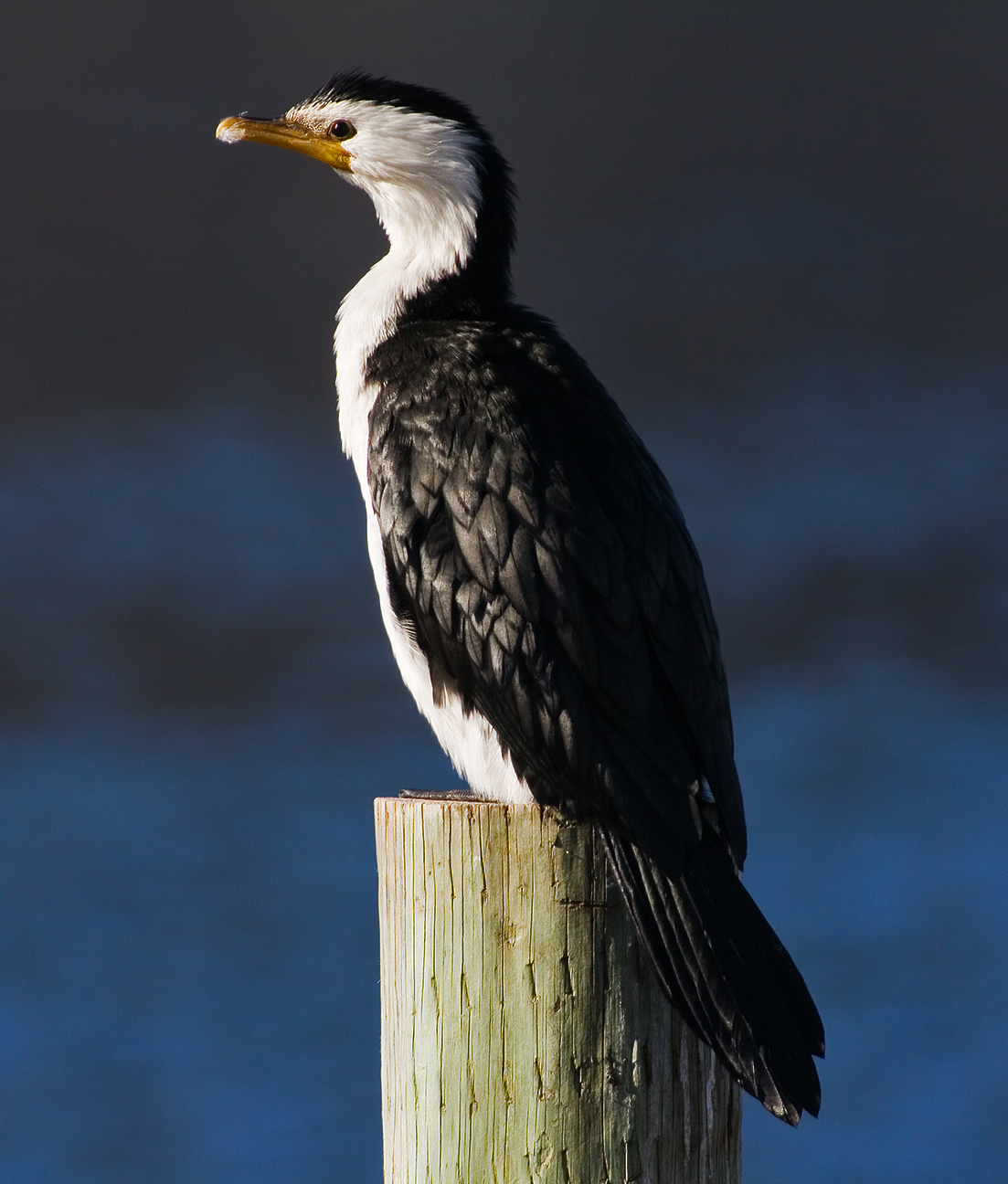 Little Pied Cormorant, Gould's Lagoon, Austins Ferry, Tasmania, Australia Camera data Camera Canon EOS 400D Lens Canon EF 400mm f5.6L w/ 1.4x teleconverter Focal length 560 mm Aperture f/10 Exposure time 1/640 s Sensivity ISO 400